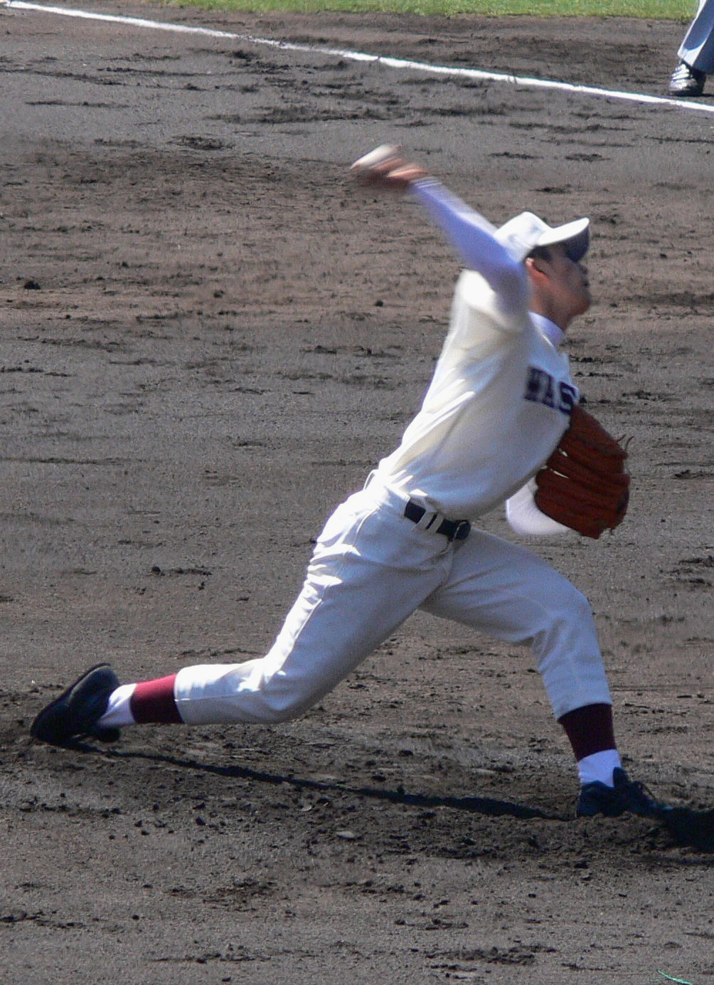 Yuki Saitō of Waseda Jitsugyo High School pitches against Hokkaido Sakae High School in the 78th National High School Baseball Invitational Tournament at Koshien Stadium on March 25, 2006.